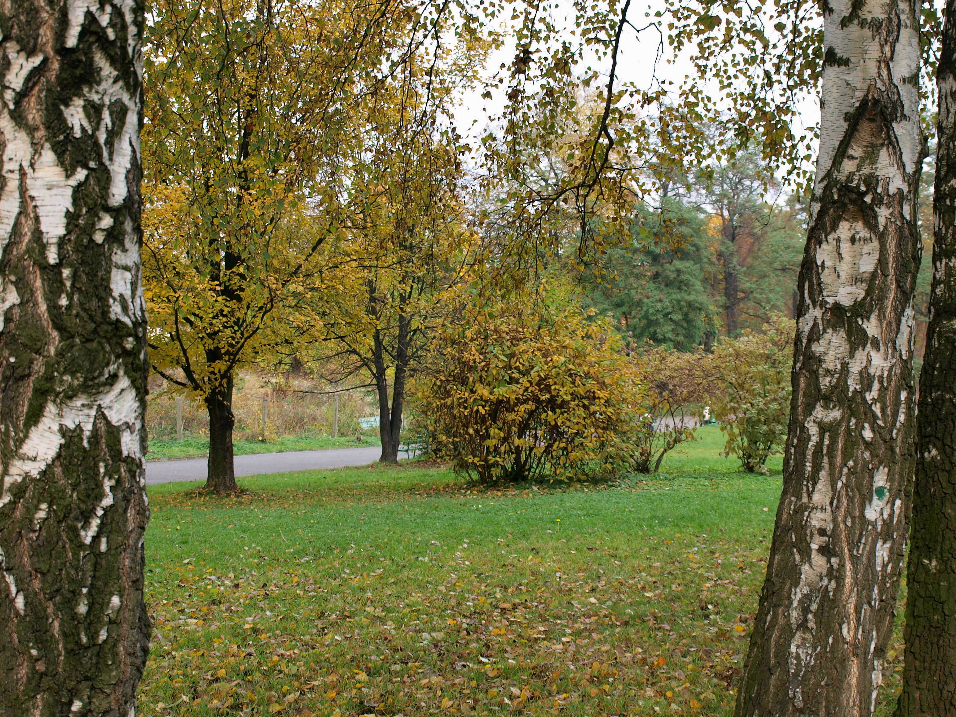 Cracow, Jerzmanowski's Park